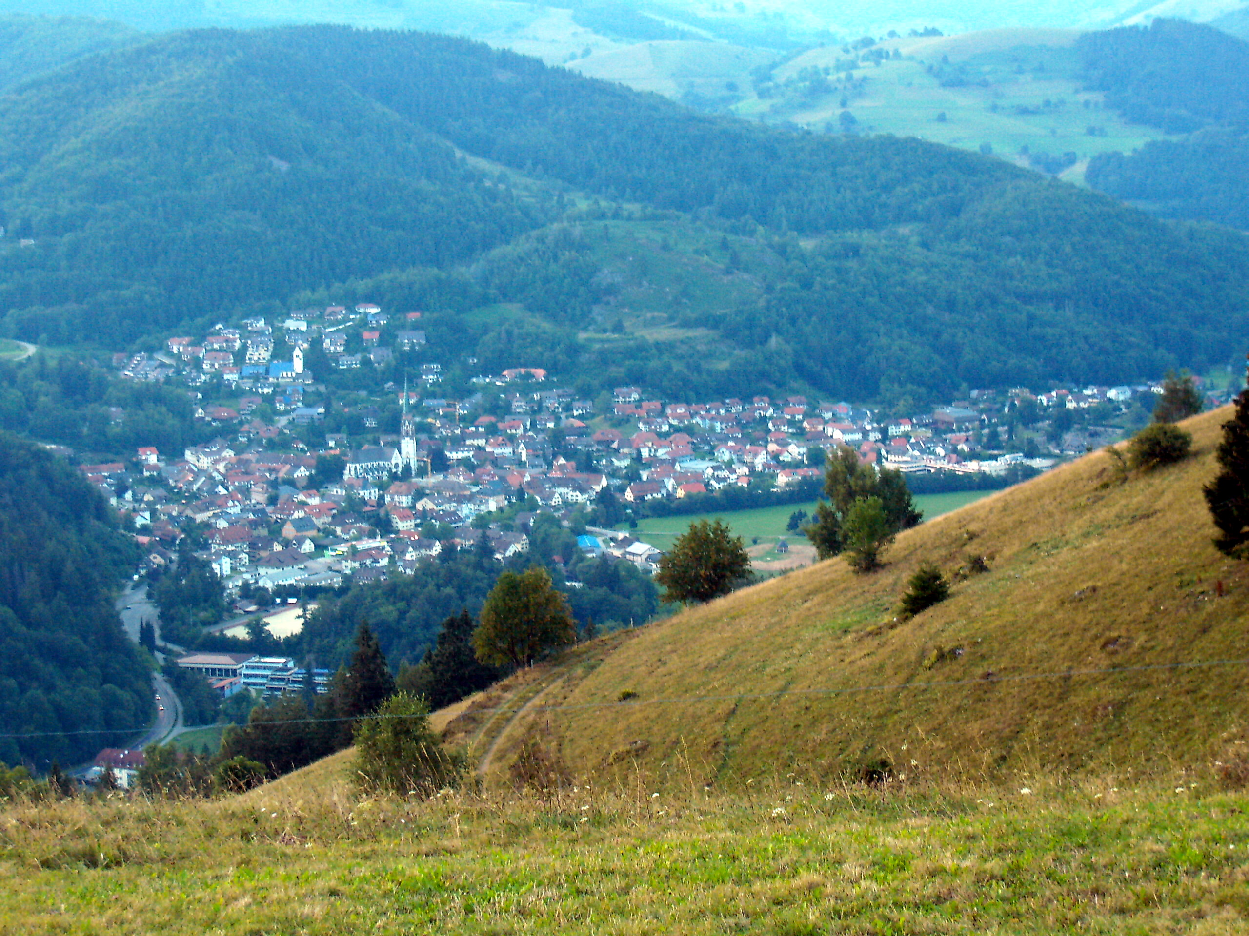 Schönau im Schwarzwald seen from the observation platform at the cross “Holzer Kreuz” in Fröhnd.